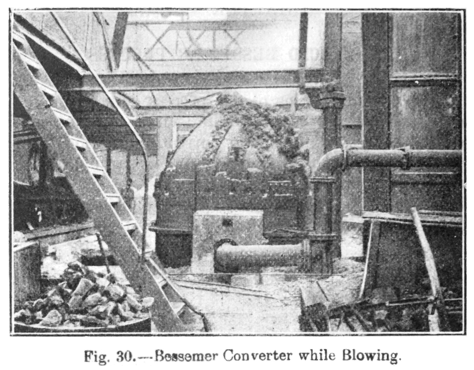 Bessemer converter blowing